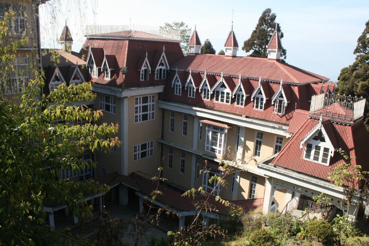 Millennium Block, eventually renamed to Howard Block. Uploaded for Contribution to Project St. Paul's School, Darjeeling Encyclopedia.